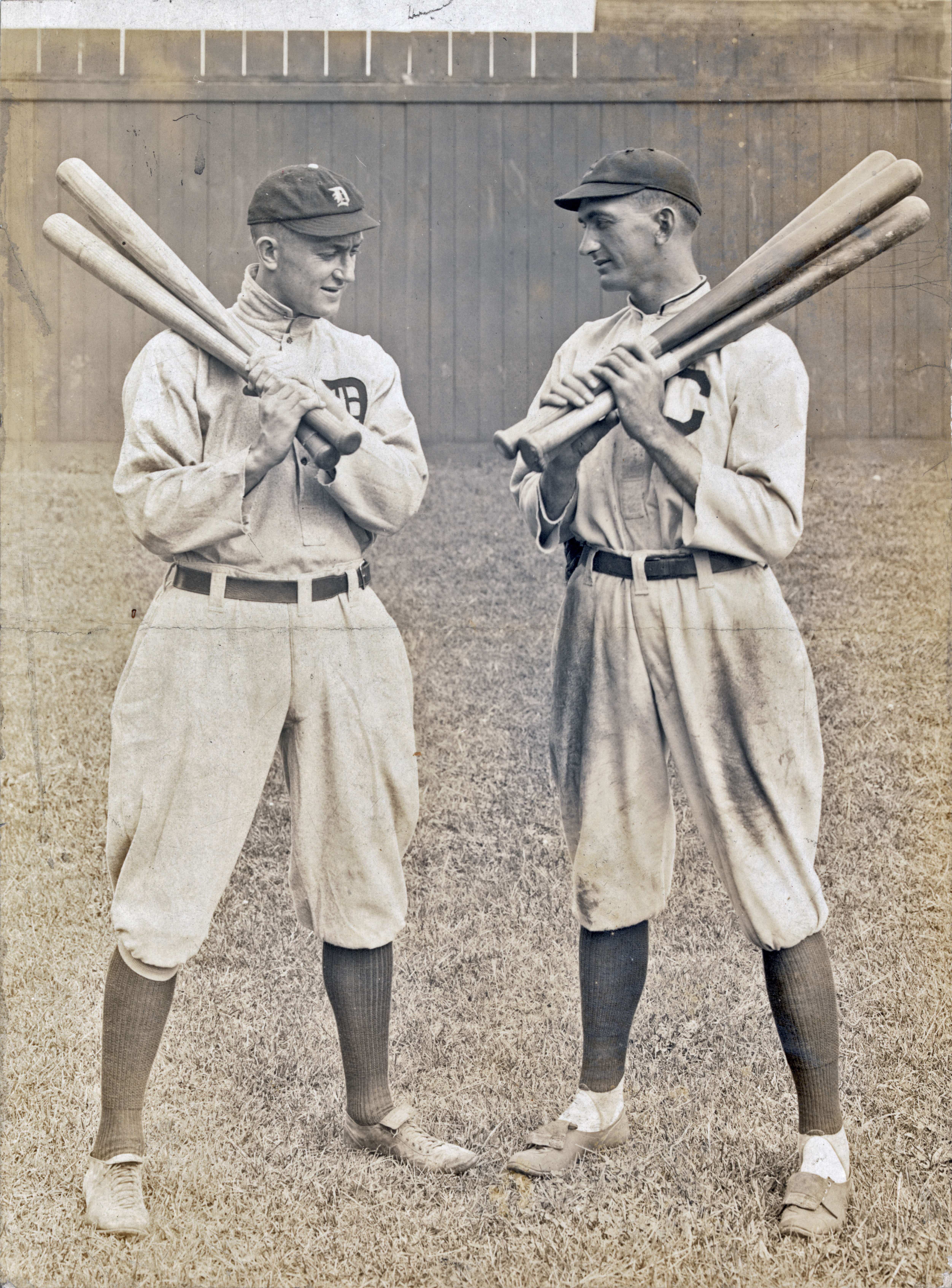 Ty Cobb & Joe Jackson standing alongside each other, each holding bats